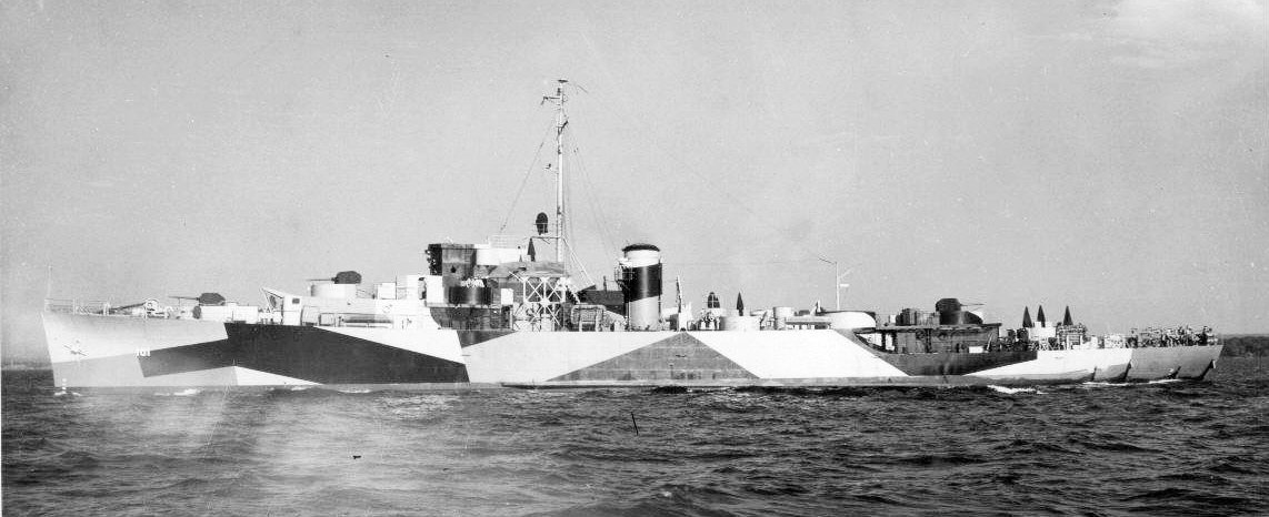 United States Navy patrol frigate USS Greensboro (PF-101)